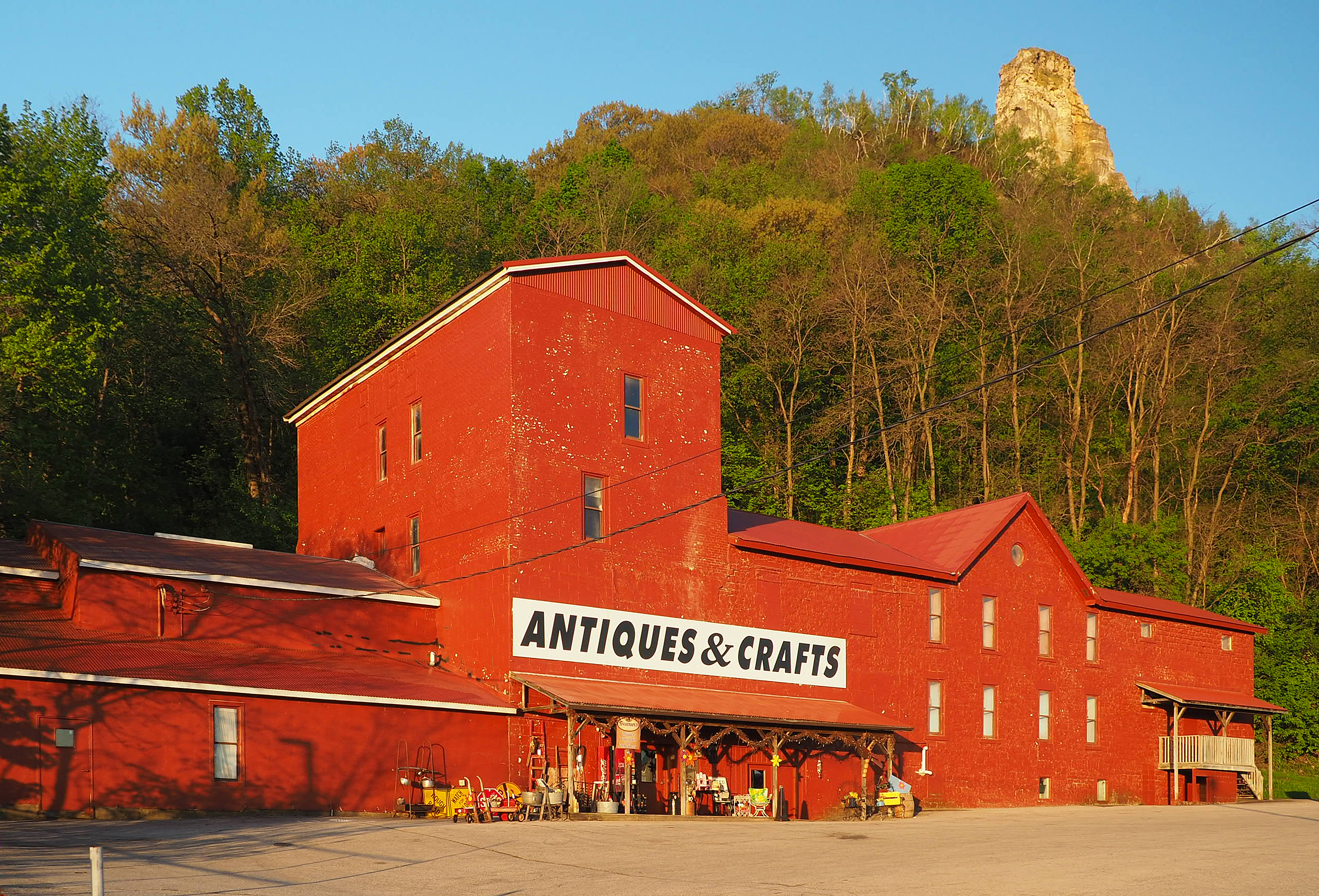 Historic Bub's Brewery (or Sugar Loaf Brewery), now the Treasures Under Sugar Loaf antique mall, 1023 Sugar Loaf Rd, Winona, Minnesota, USA. Viewed from the northeast.